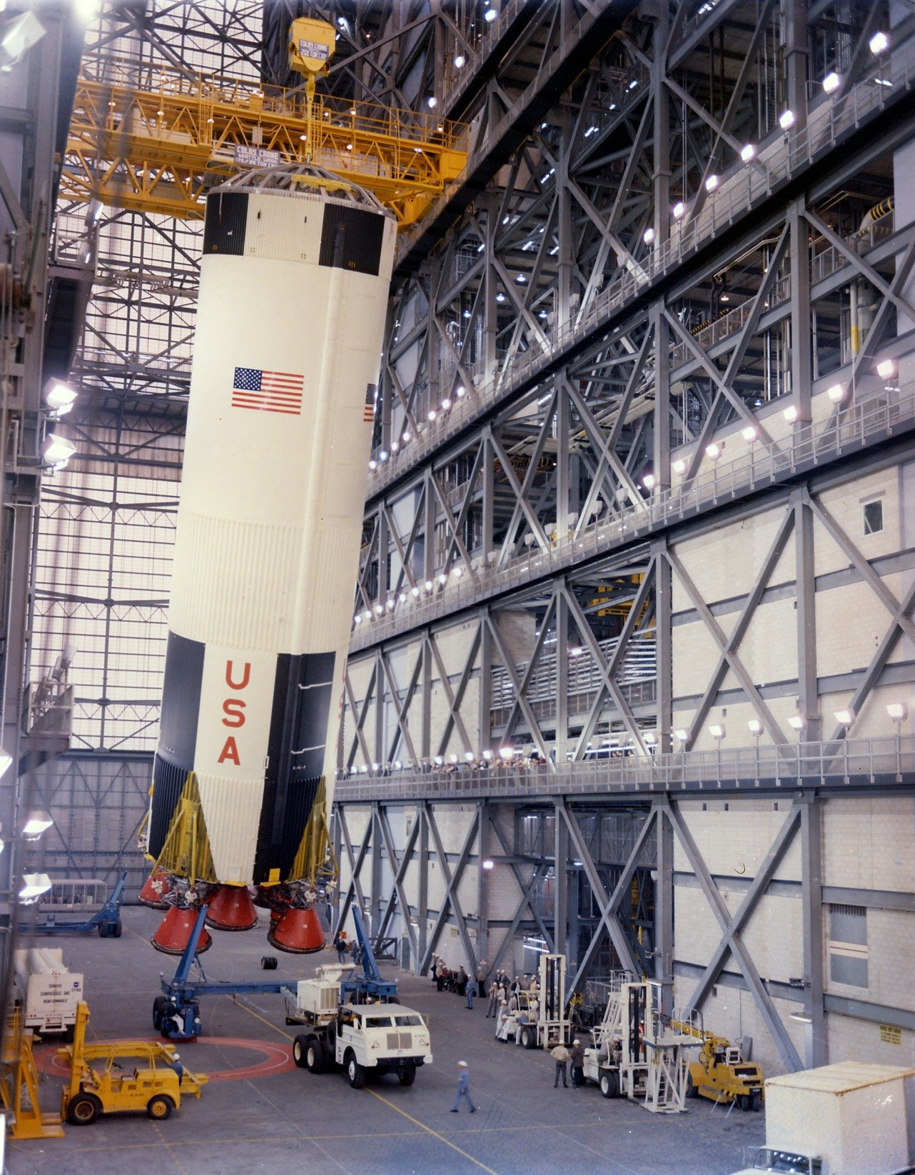 The S-IC first stage of the Apollo 8 Saturn V being erected in the Vertical Assembly Building on February 1, 1968.